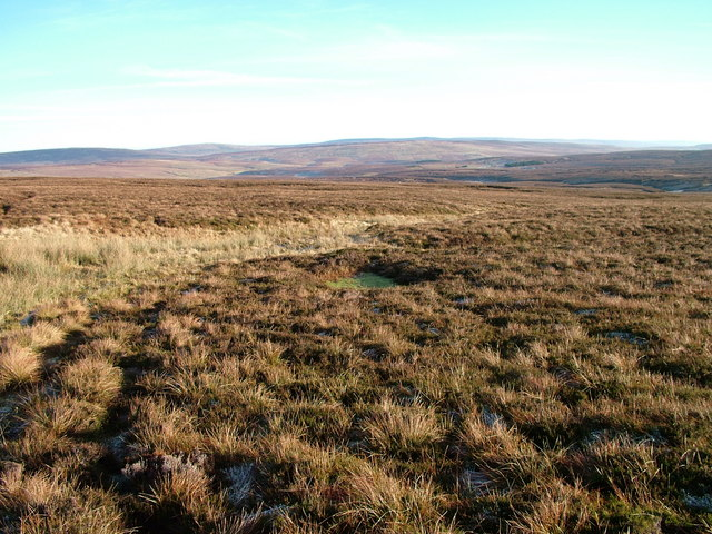 Moorland, Moor House Nature Reserve